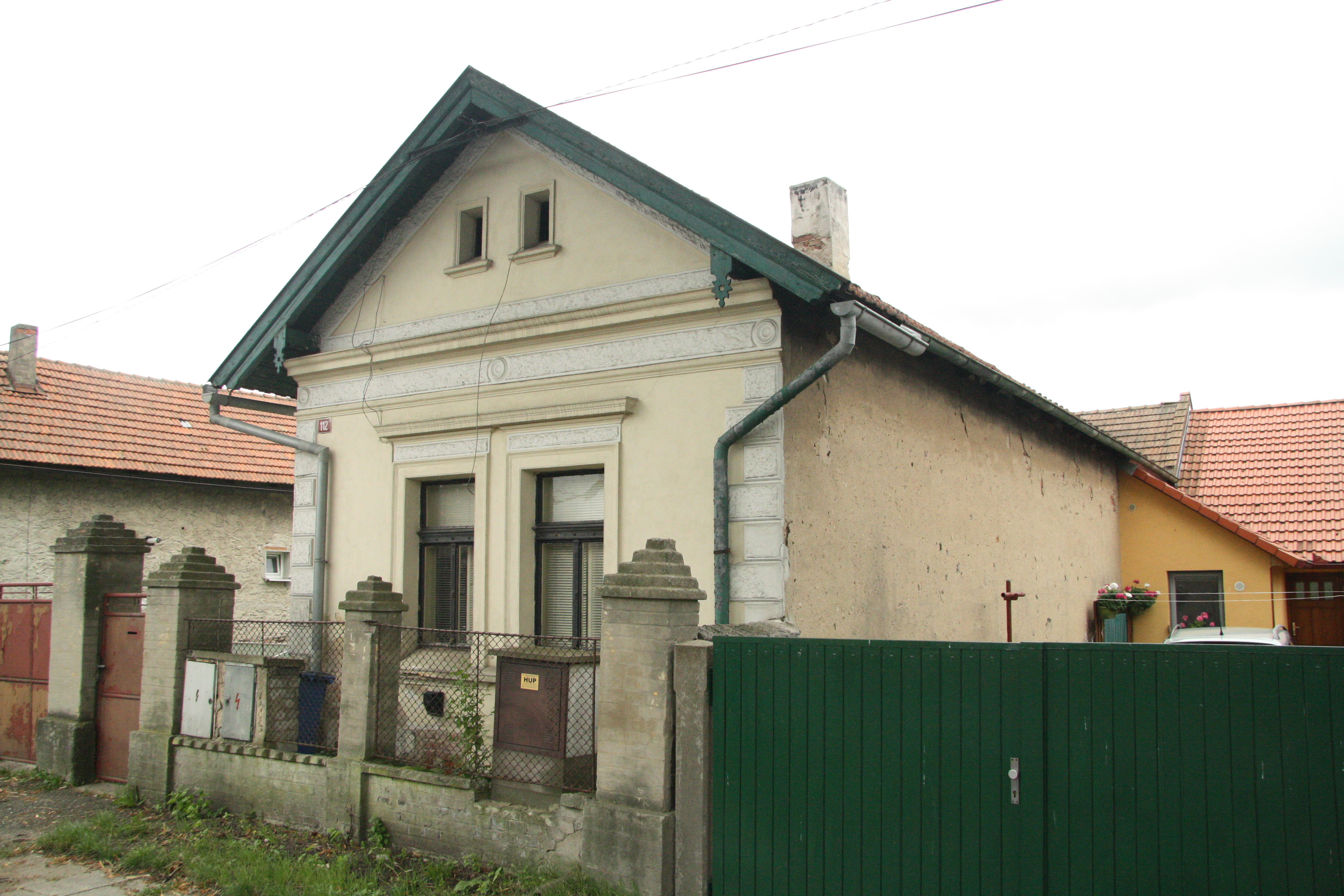 Areal of Synagogue in Kovanice, Nymburk District.